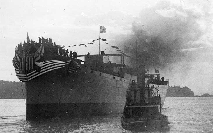 The commercial cargo ship SS Willimantic being launched at the Todd Drydock and Construction Company at Seattle, Washington, with her bow heavily decorated and the tug Prosper, of Seattle, standing by. She later served as the US Navy cargo ship USS Willimantic (ID-3549).